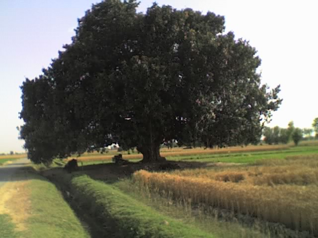 a tree in village 44/12.L